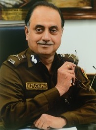 Neeraj Kumar as Commisioner of Delhi Police, 2012